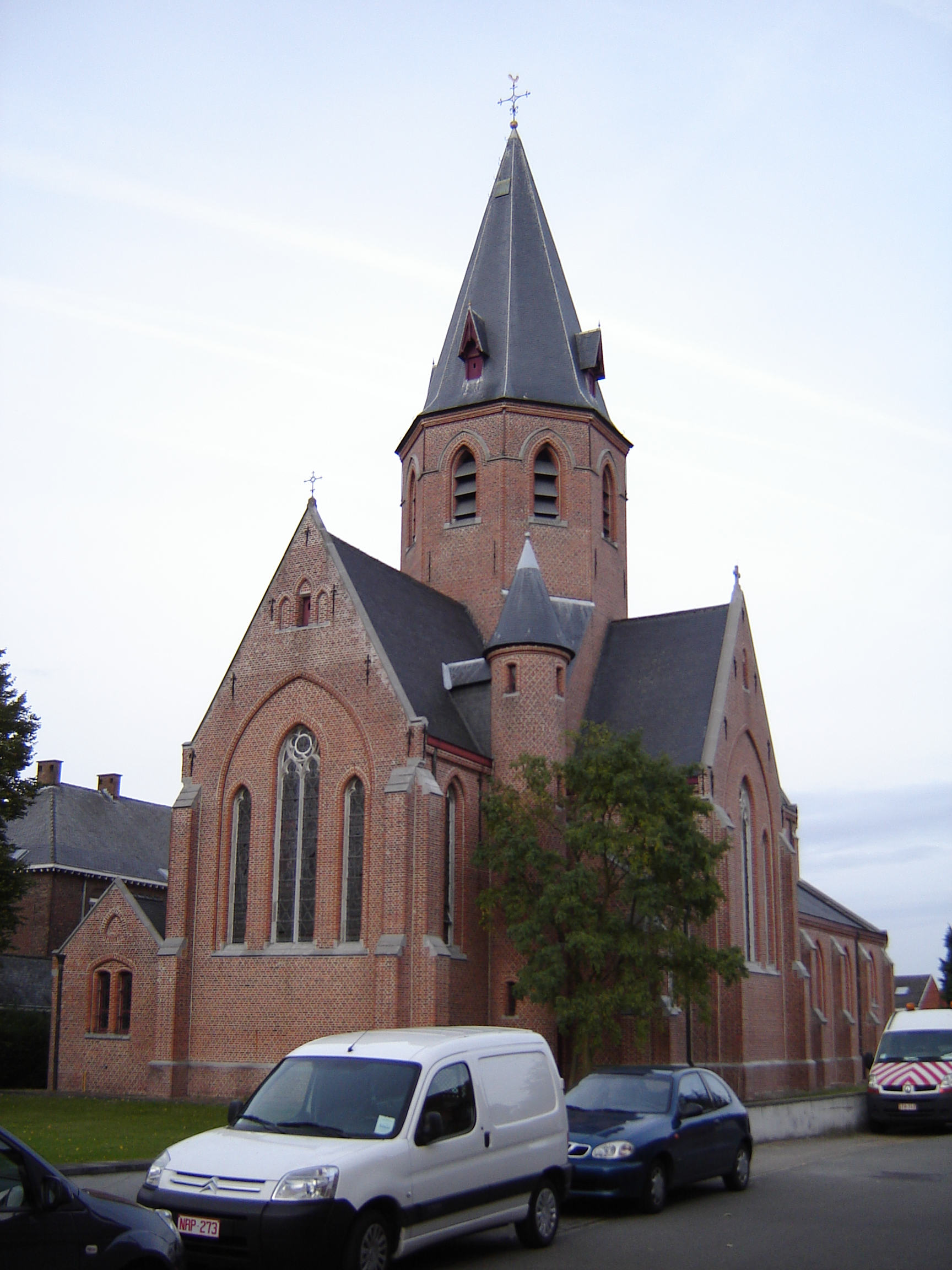 Church of Saint Joseph in Kastel. Kastel, Moerzeke, Hamme, East Flanders, Belgium